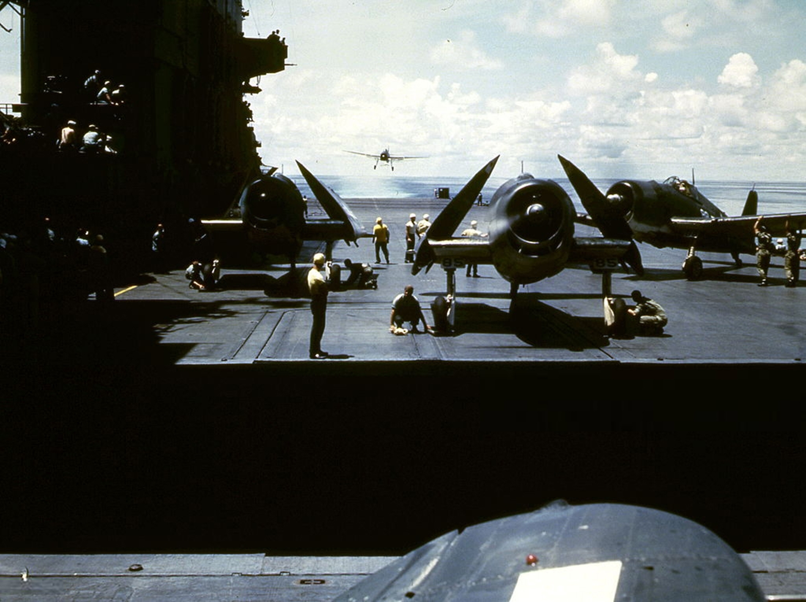 U.S. Navy Grumman F6F-3 Hellcat fighters on the flight deck of the aircraft carrier USS Saratoga (CV-3), 1943-1944. Note the open elevator well in the foreground and the flight deck crewmen chocking wheels of the F6Fs.